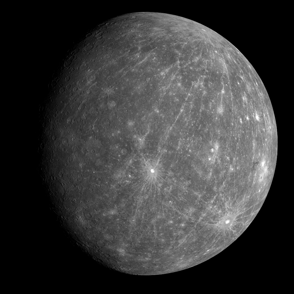 The spectacular image shown here is one of the first to be returned from MESSENGER's second flyby of Mercury. The image shows the departing planet taken about 90 minutes after the spacecraft's closest approach. The bright crater just south of the center of the image is Kuiper, identified on images from the Mariner 10 mission in the 1970s. For most of the terrain east of Kuiper, toward the limb (edge) of the planet, the departing images are the first spacecraft views of that portion of Mercury's surface.